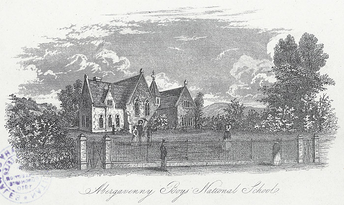 1 print : engraving, b&w ; image size 76 x 151 mm., paper size 127 x 189 mm.